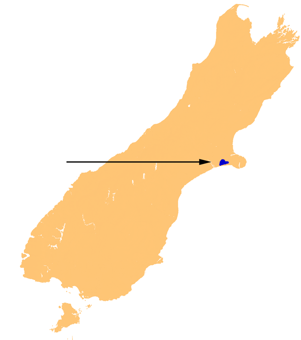 Location map of Lake Ellesmere, New Zealand